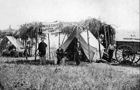 In addition to providing religious literature for the Union, the United States Christian Commission was involved in a multitude of social services. They supplied medical services, provided supplies, social workers, and also assisted the U.S. Sanitary Commission.